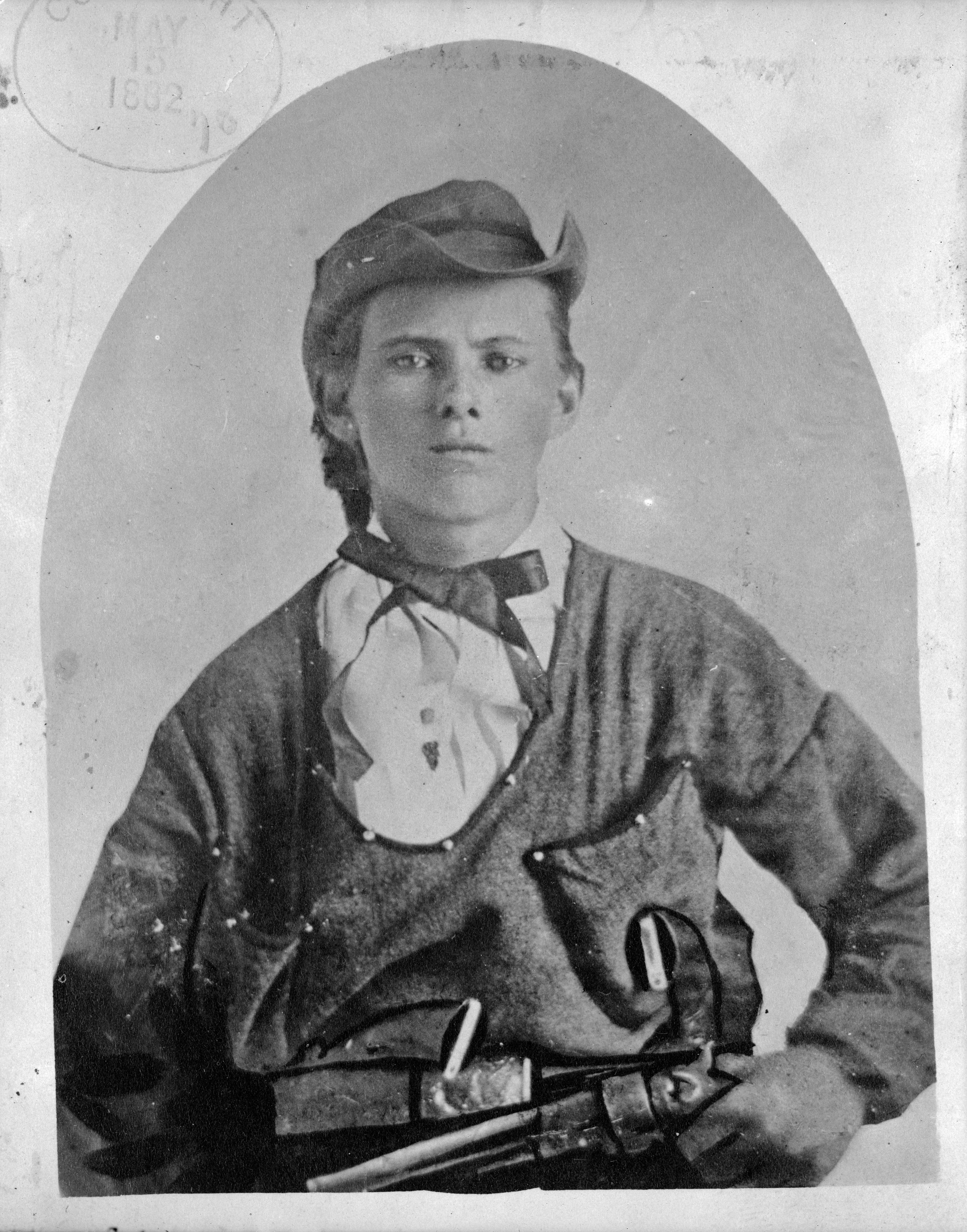 Jesse James (approx. 16 yrs. of age). Missouri bushwhacker riding with Bloody Bill Anderson.